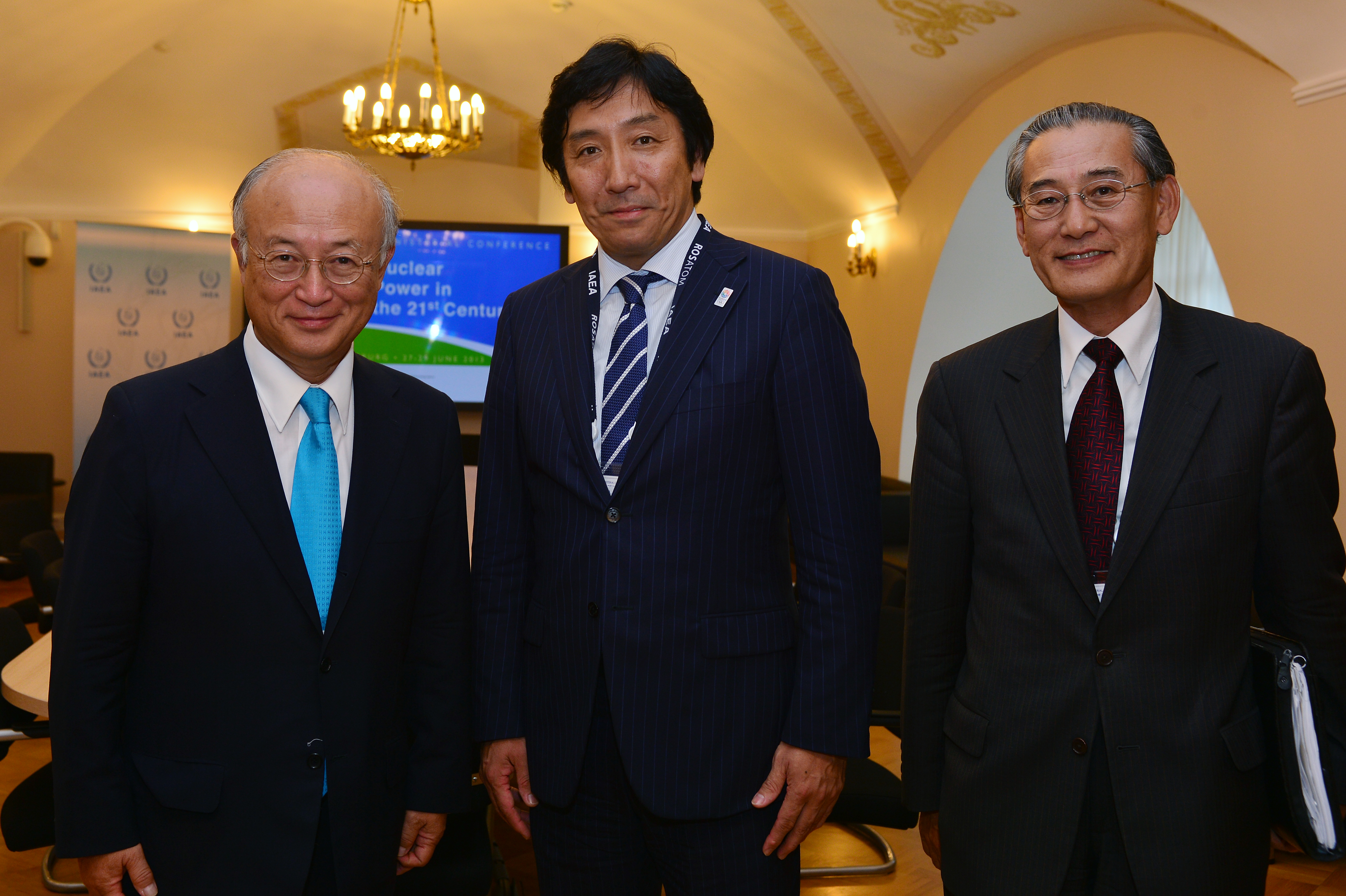 Isshū Sugawara, Senior Vice-Minister of Economy, Trade and Industry, and Toshirō Ozawa, Ambassador to the International Organizations in Vienna, met Yukiya Amano, Director General of the International Atomic Energy Agency, at the Boris Yeltsin Presidential Library in Saint Petersburg City on June 27, 2013.